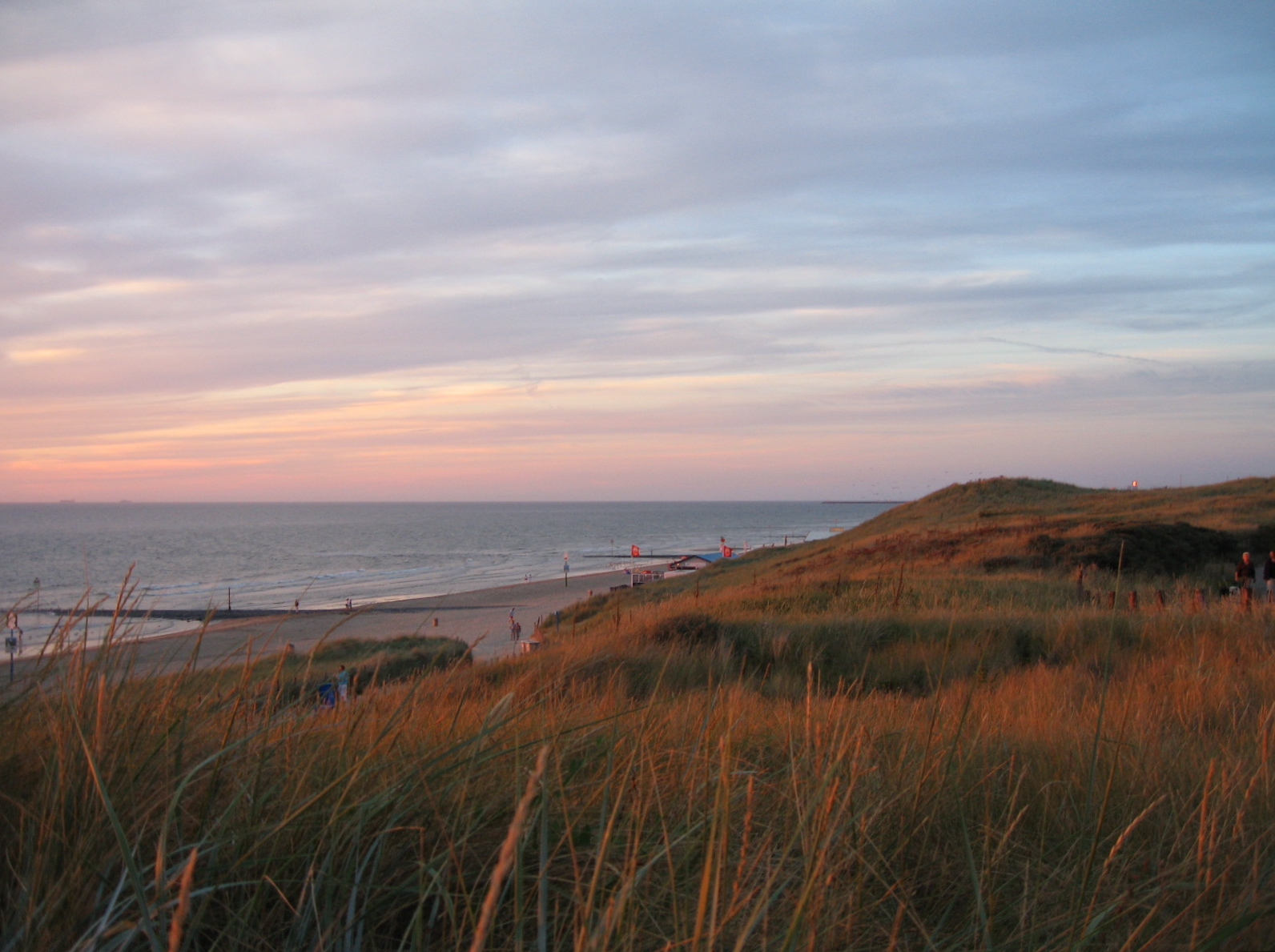 The beach at Kijkduin, The Hague, The Netherlands.